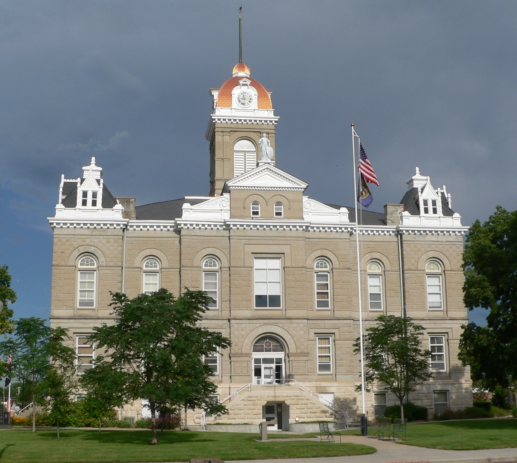 Jefferson County Courthouse in Fairbury, Nebraska; seen from the east. The Richardsonian Romanesque building was constructed in 1891. It is listed in the National Register of Historic Places.